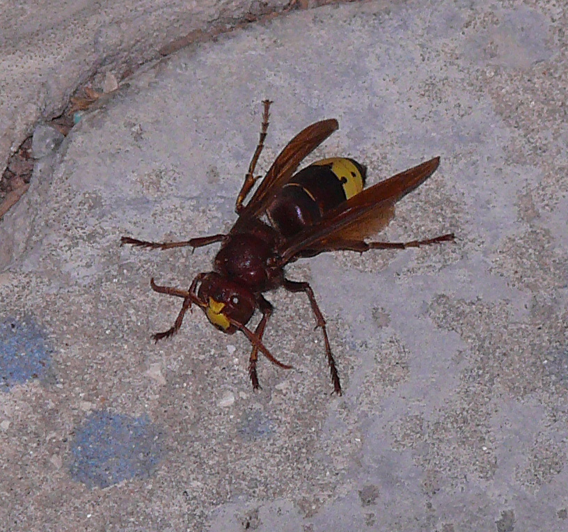 Vespa orientalis